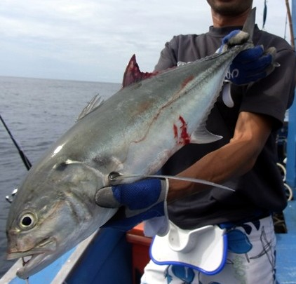 Caught in Palau